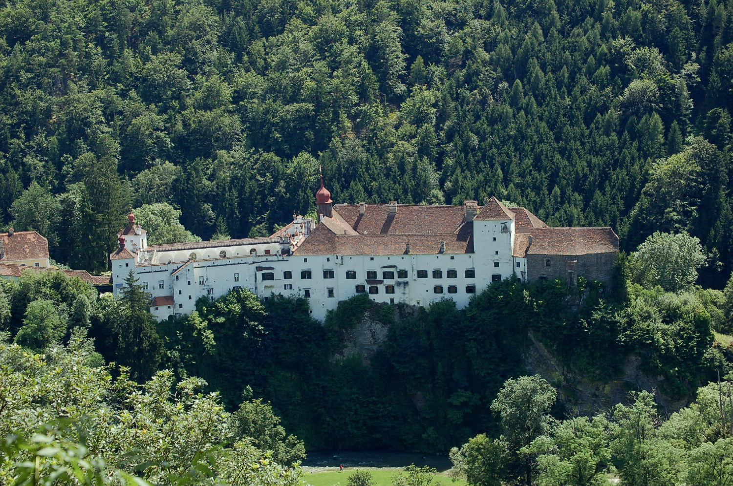 Herberstein castle near Stubenberg in Styria